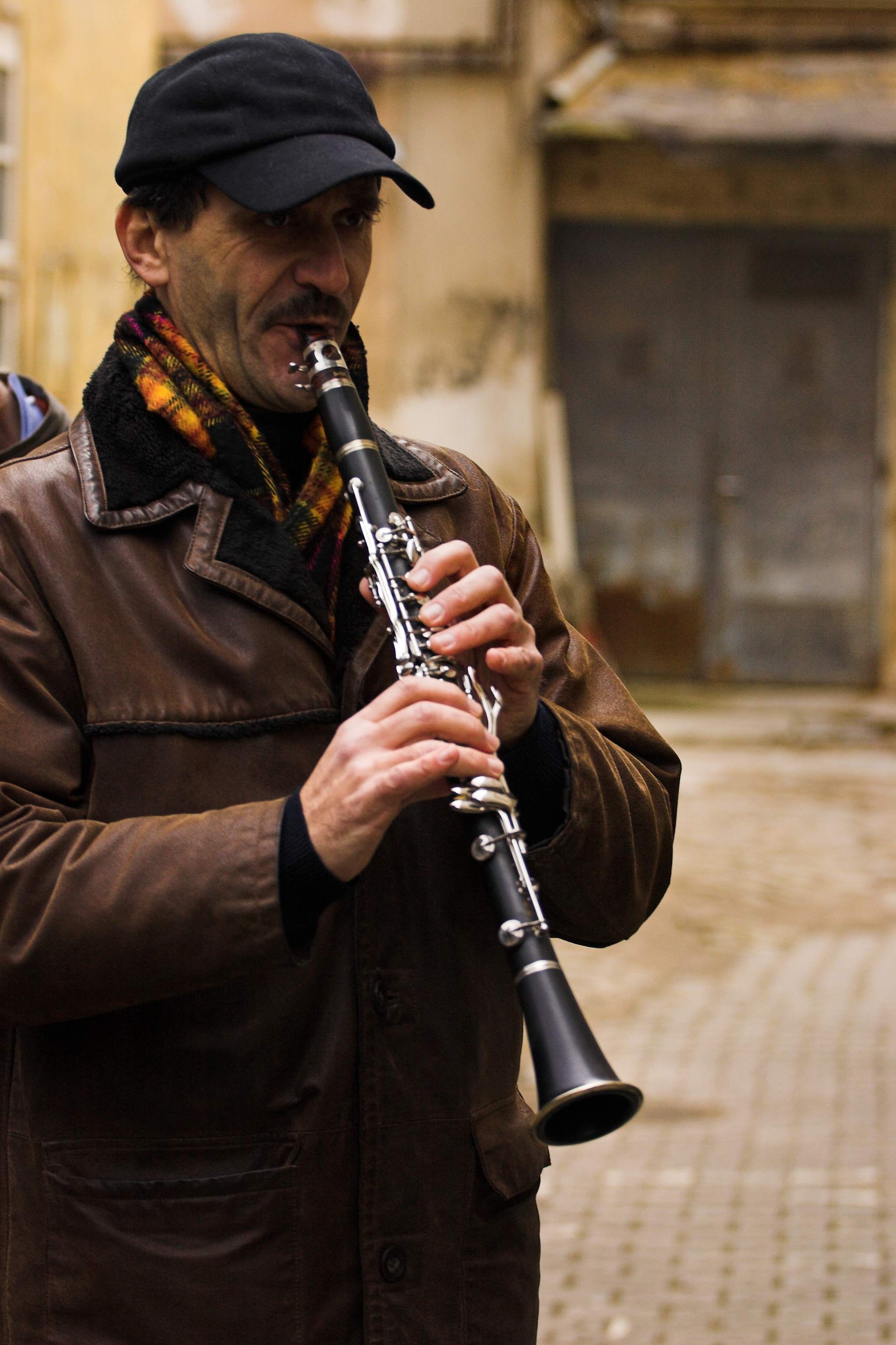 Clarinetist at farewell for Jan Kaplický, Prague, January 2009.